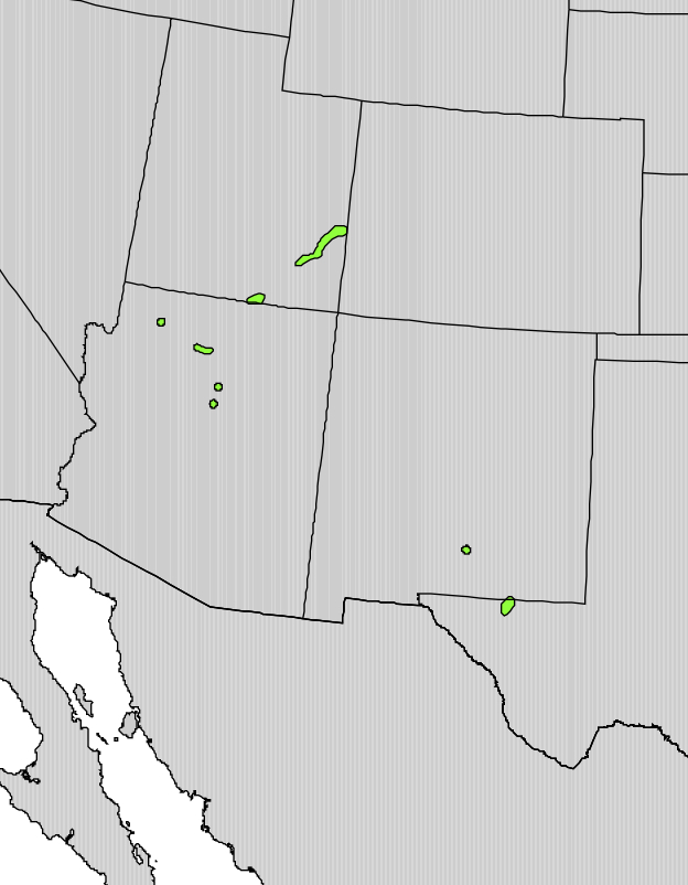 Range distribution map of Ostrya knowltonii.